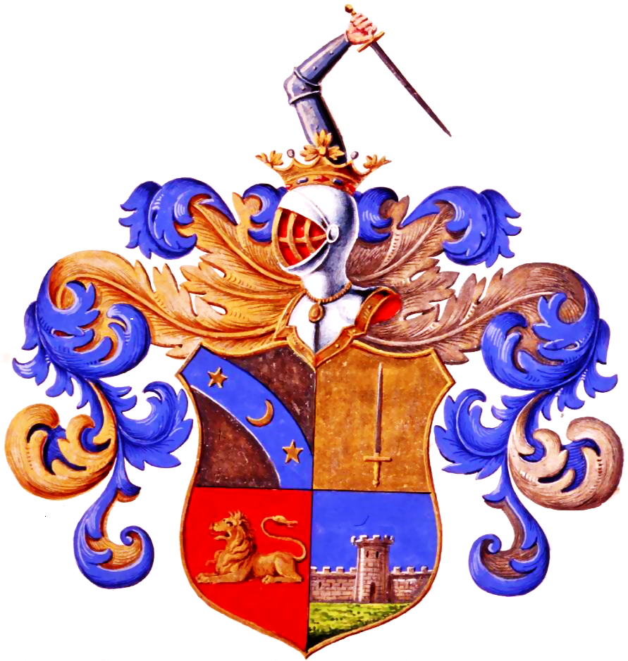 Coat of Arms of family Tobizen